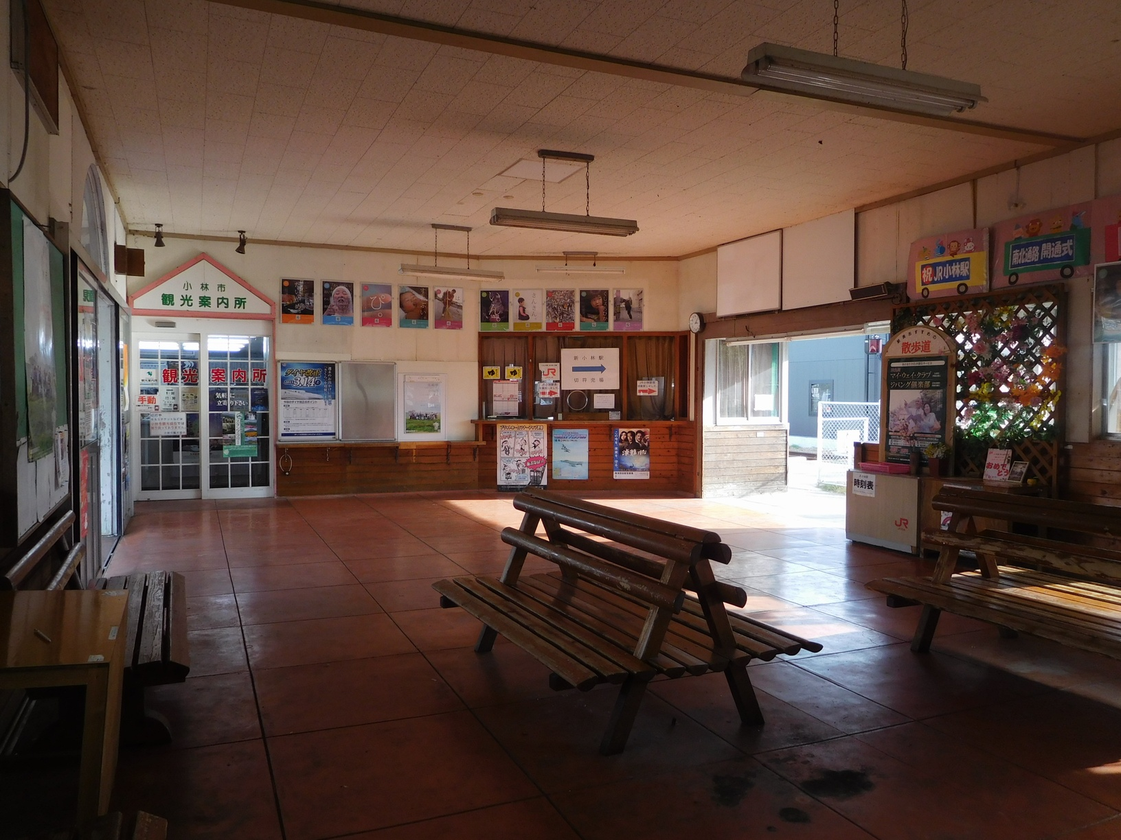 JR Kyushu Kitto Line - former concourse of Kobayashi Station (Kobayashi City, Miyazaki Prefecture, Japan)